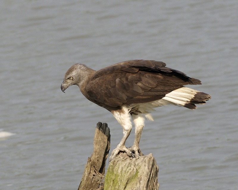 A Grey-headed Fish Eagle in Kazaringa, Assam, India.